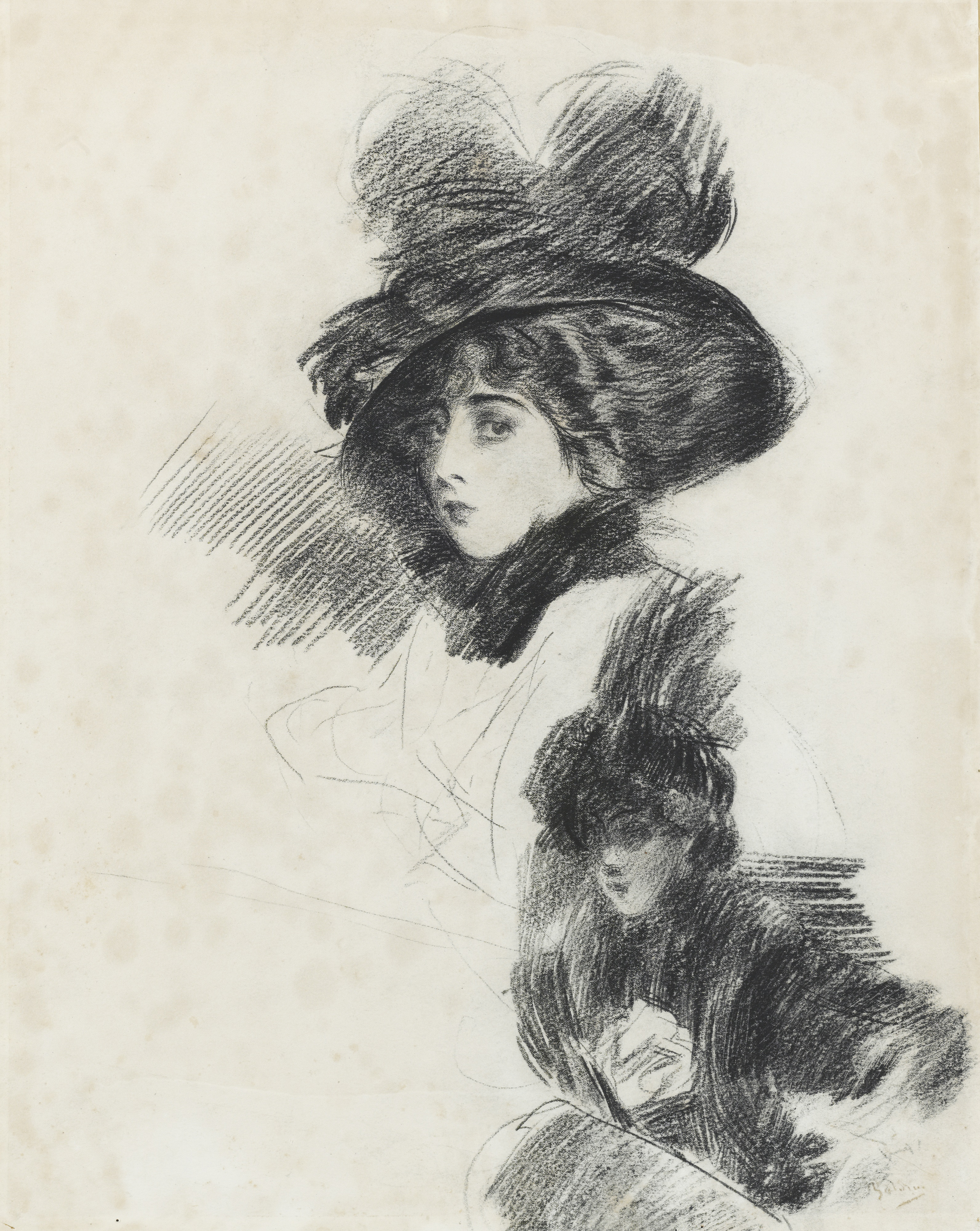 circa 1900